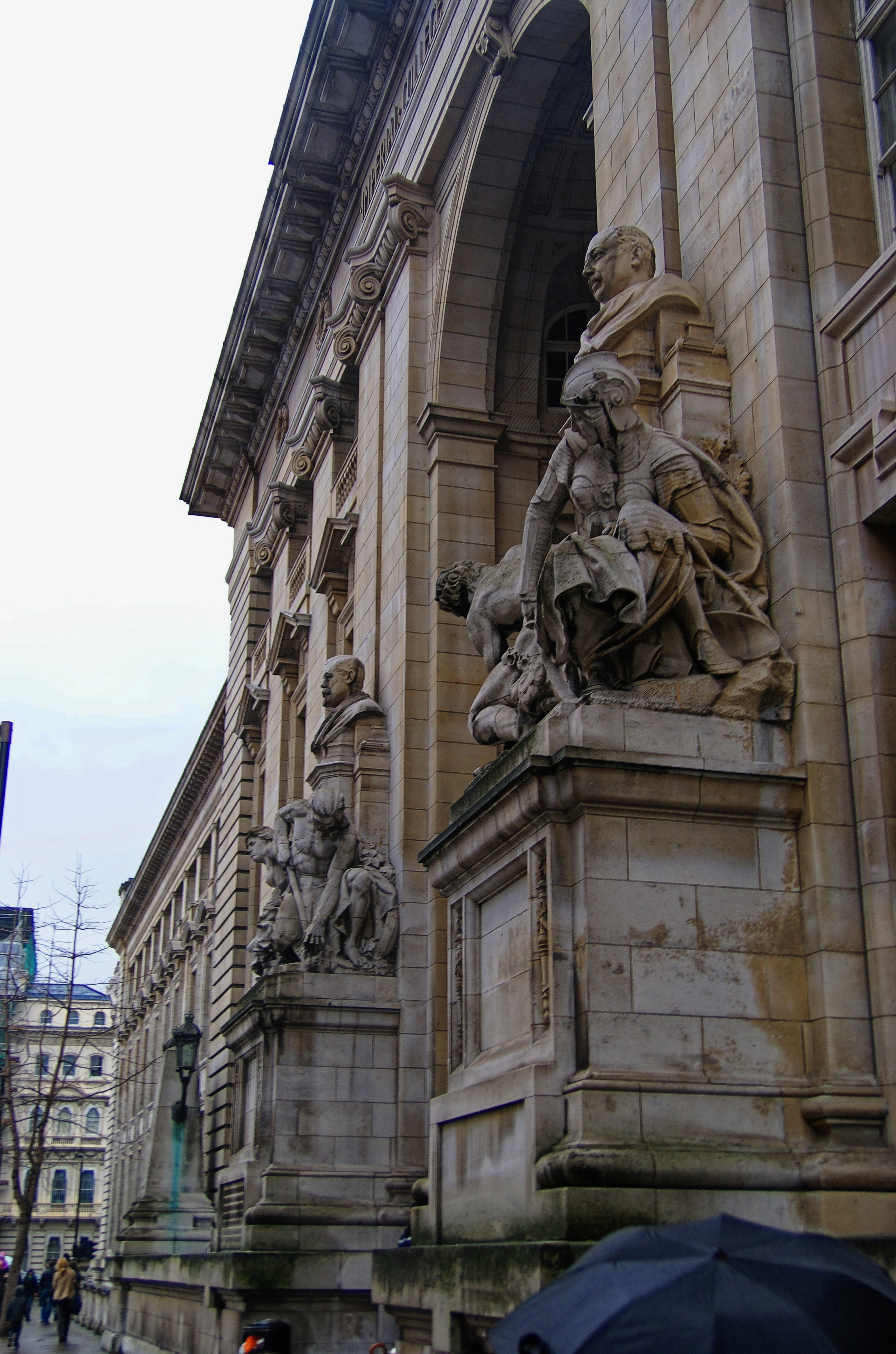 London - Prince Consort Road - Entrance Imperial College London